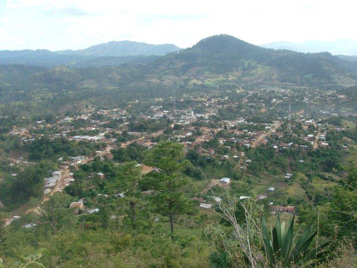 View of La Unión, Olancho Department, taken from the Cerro El Guayabo. Here is an urban aglomeration.